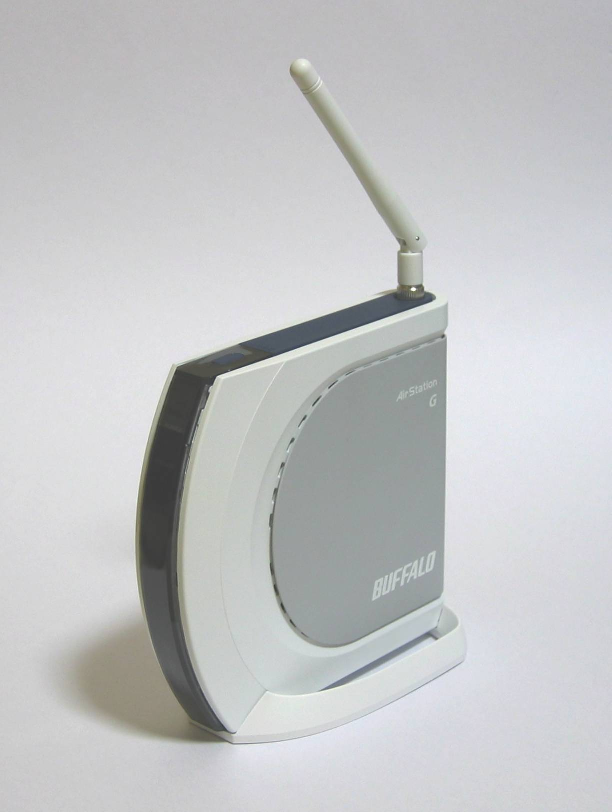 AirStation WHR-G54S is a wireless LAN (IEEE802.11b and g) router. It was made by BUFFALO.